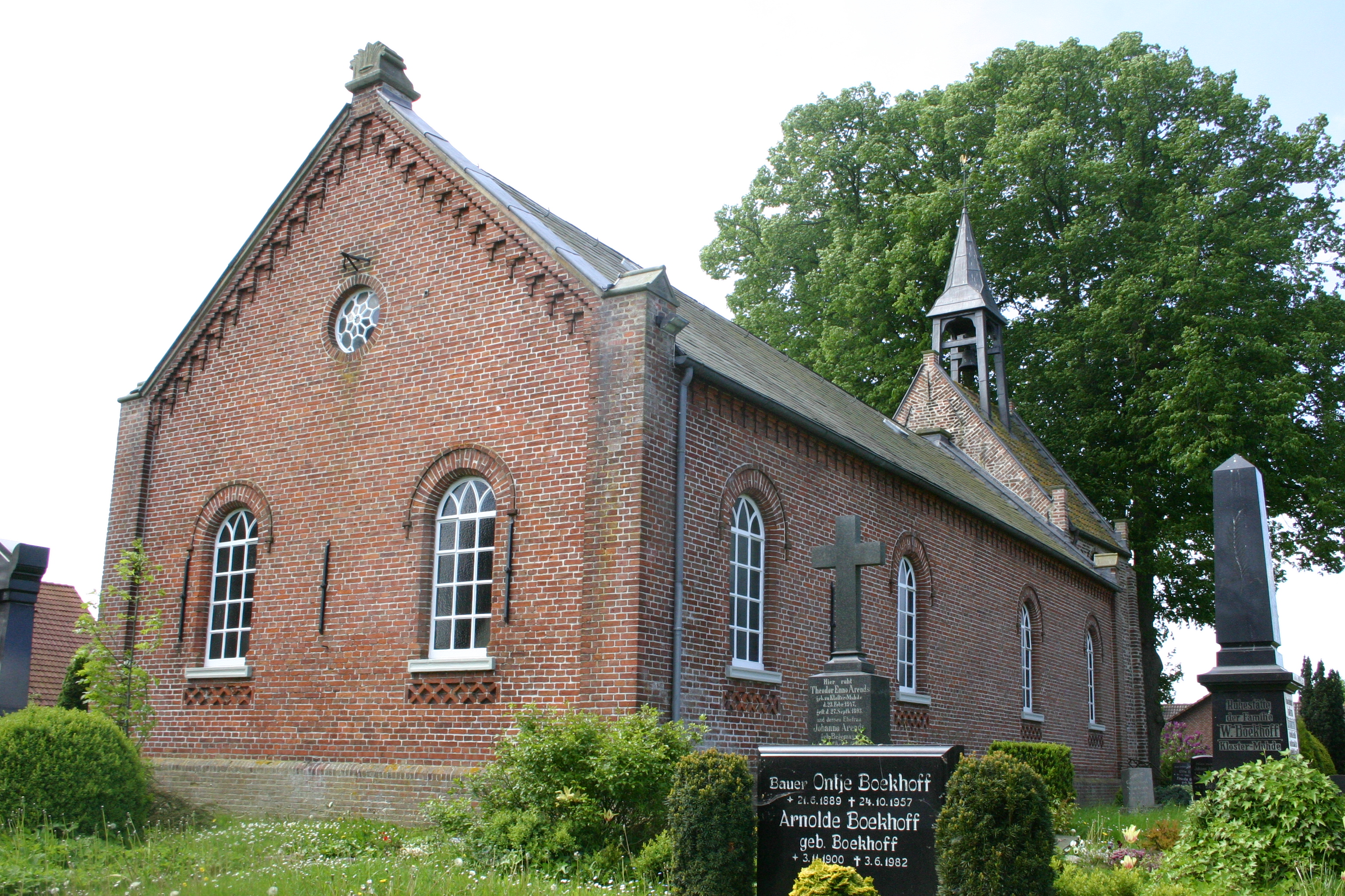 Historic church in Driever, district of Leer, East Frisia, Germany